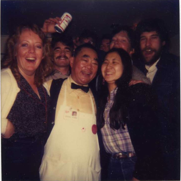 This is a photo of Edsel Fong Ford along with his routinely 'abused' customers.